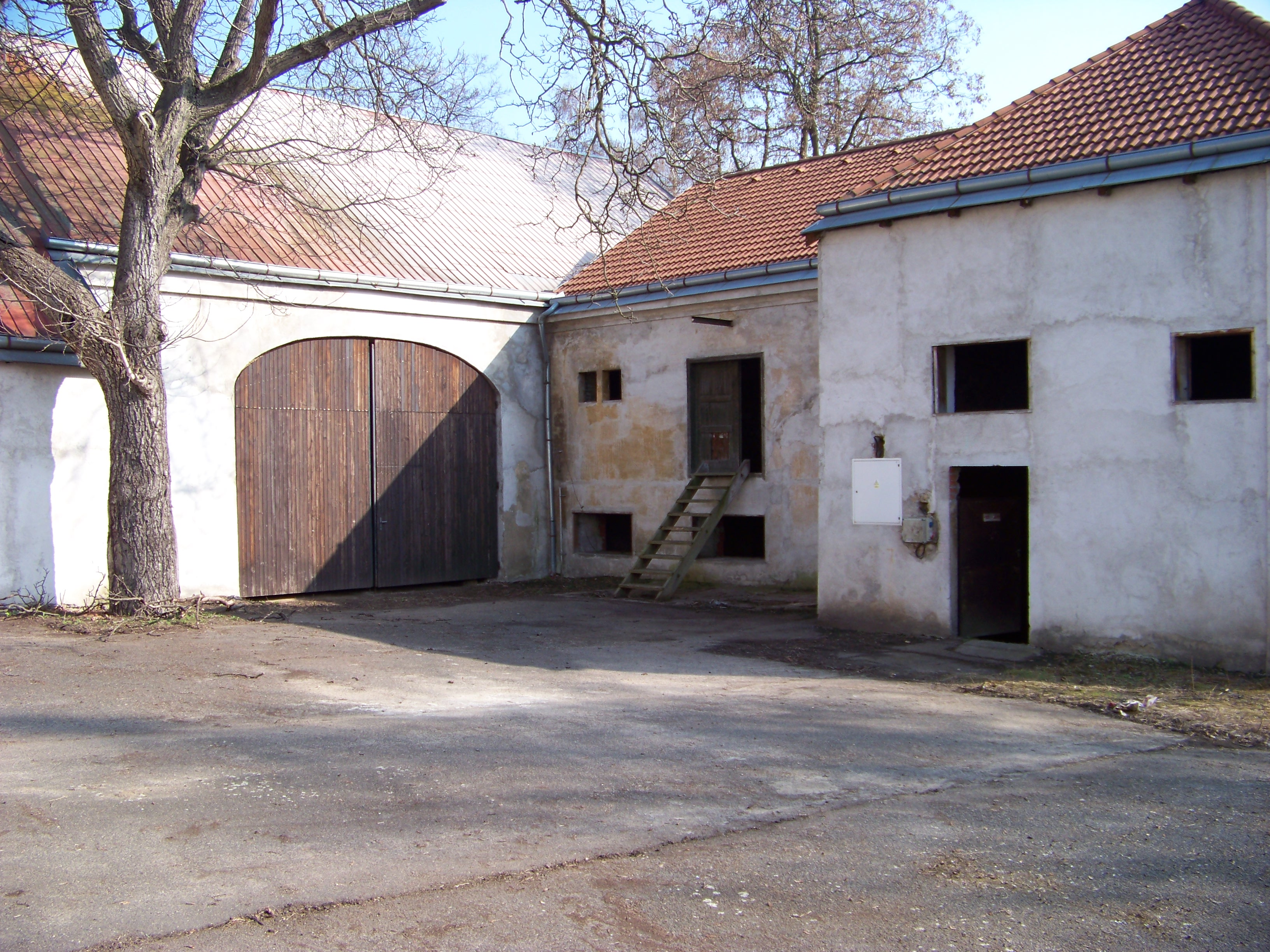 Prague-Libeň, the Czech Republic. Na Košince street, a barn.